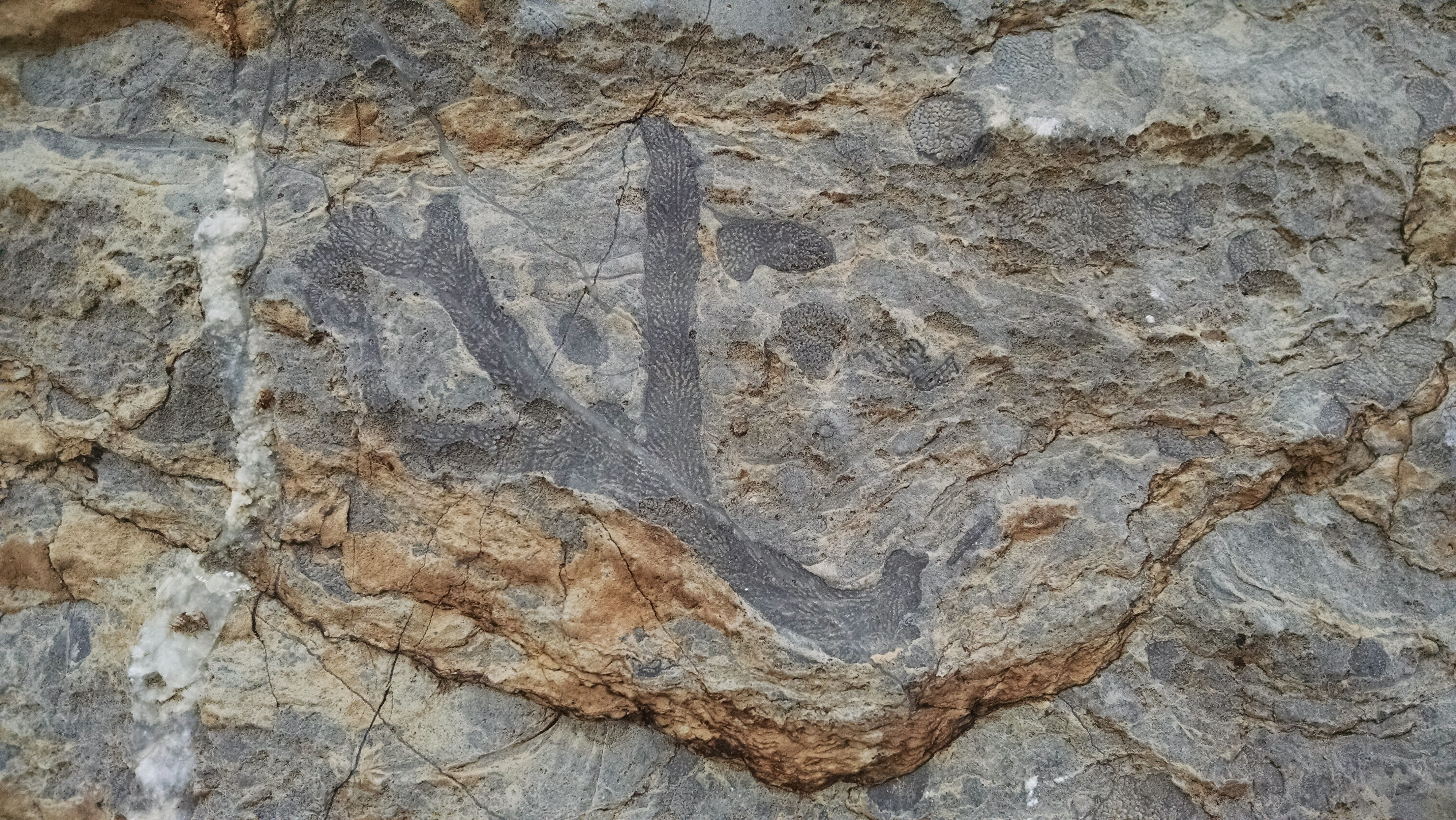 Branching Archaeocyath from Rowland's Reef near Gold Point, Nevada